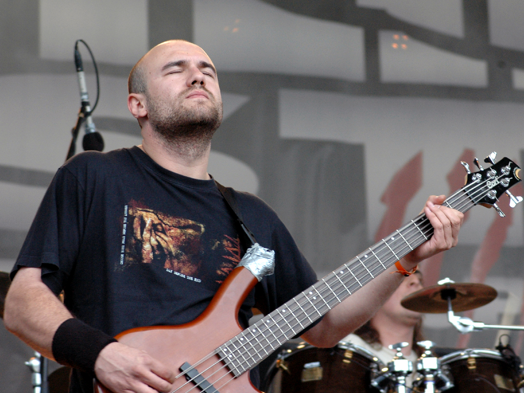 Łukasz "Fulba" Fulbiszewski from Totem on Hunter Fest 2007